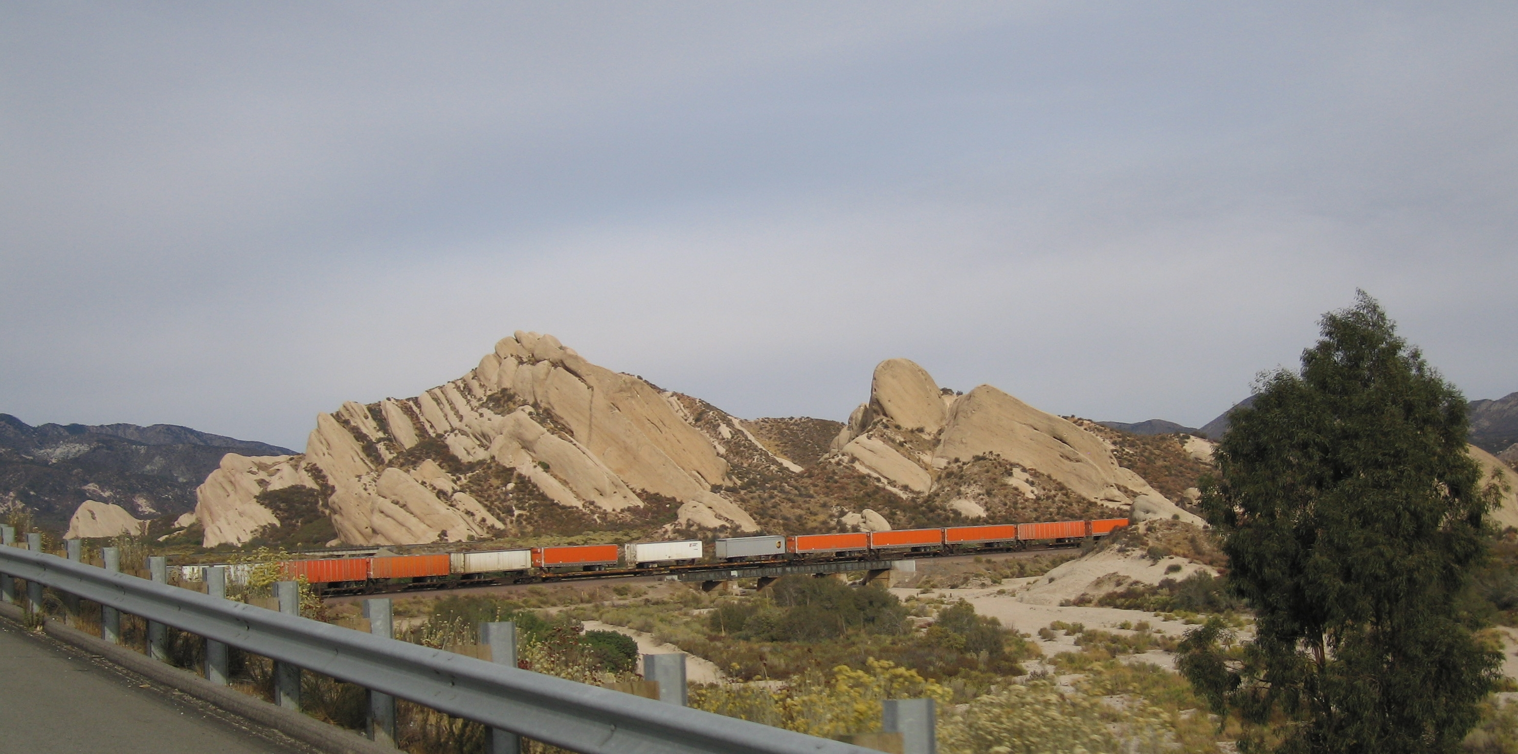 Mormon Rocks, Cajon Pass, San Bernardino County, California. Photo taken 22 Nov 2006 by Takwish with a Canon PowerShot S70.